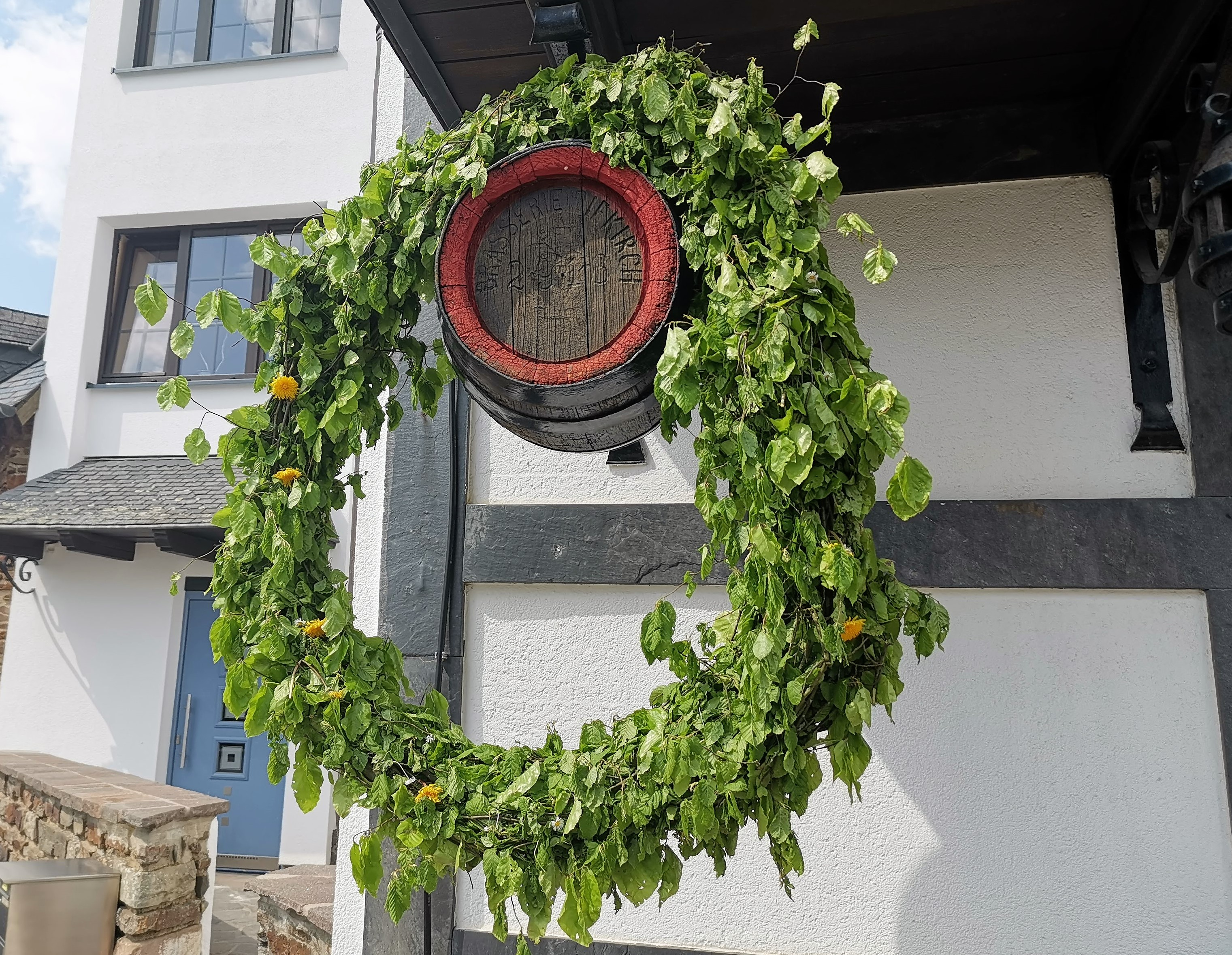 May wreath in Wahlhausen (Luxembourg), in front of Restaurant "Beim Bertchen".